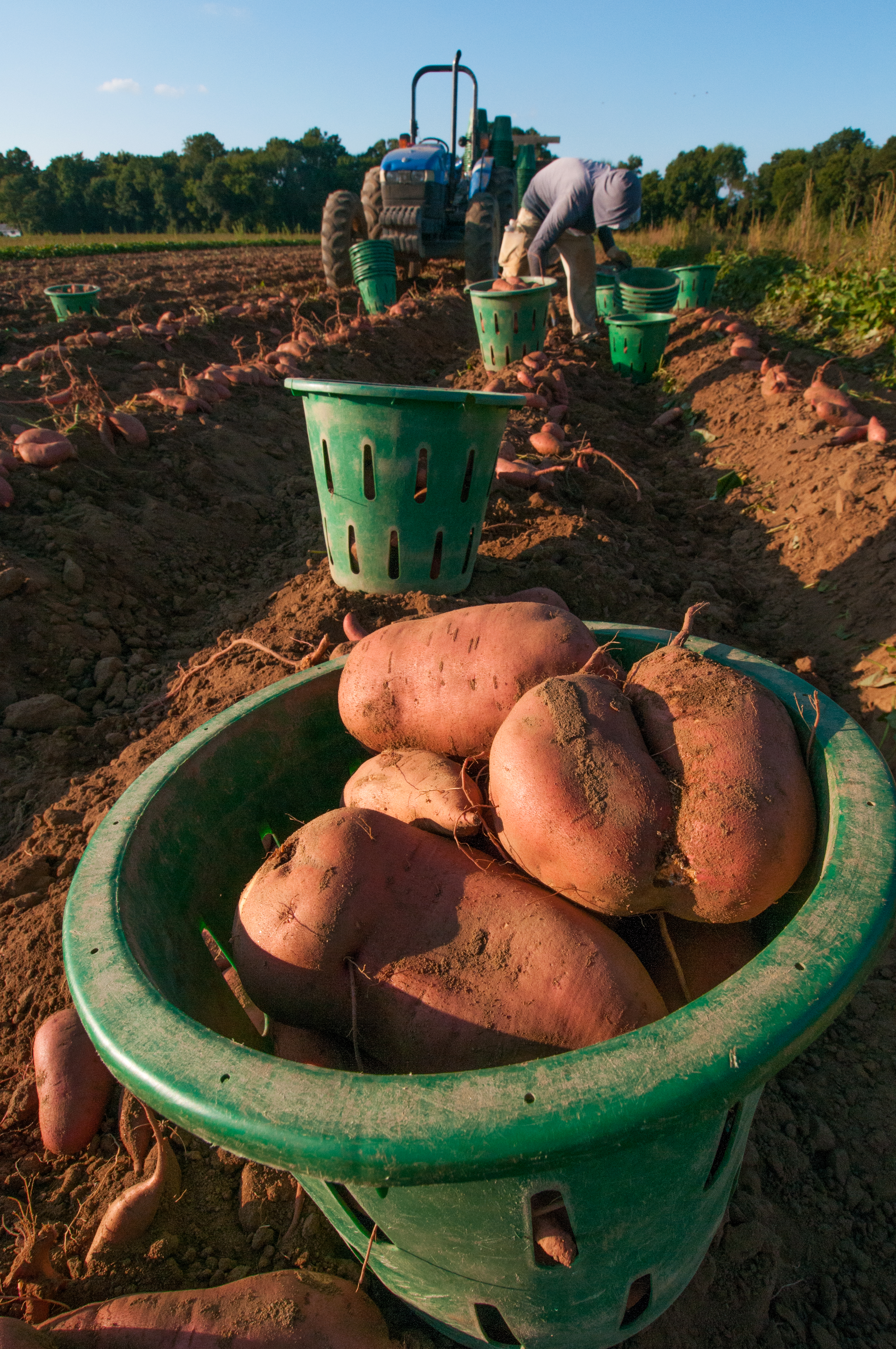 Large sweet potatoes are ploughed up for migrant workers to pick and sort according to size at Kirby Farms in Mechanicsville, VA on Sep. 20, 2013.